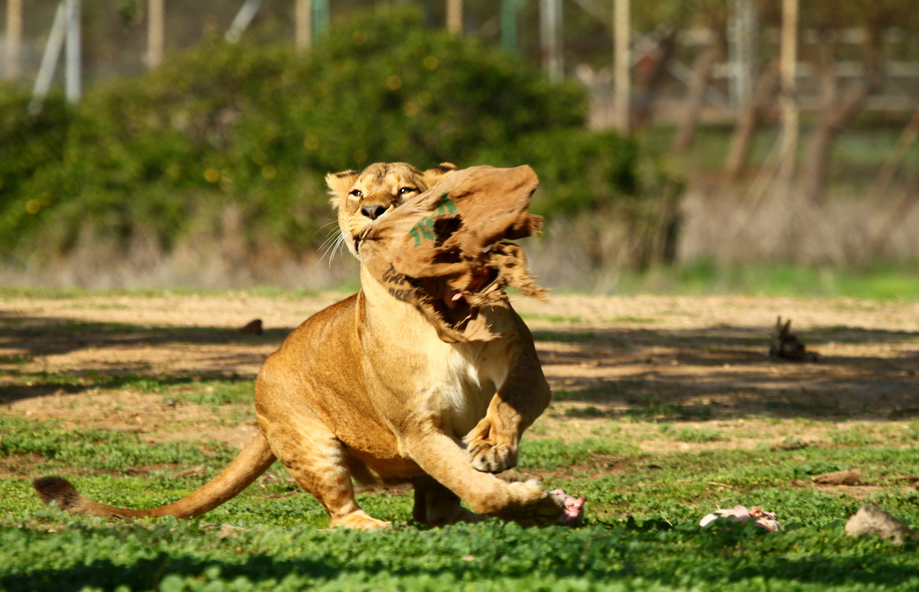 Sensory enrichment for the lions at the Safari zoo in Israel. The lions received jute bags that were used as bedding at the goats exhibit and absorbed the goats smell.